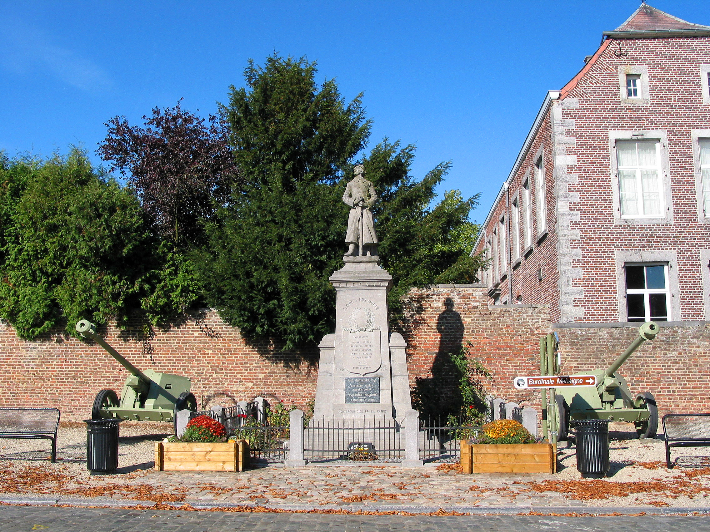 Burdinne (Belgium), memorial dedicated to the military and civil victims of the second world war.